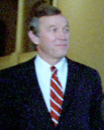 NBC News anchor Roger Mudd poses for a photograph during a taping of NBC's Christmas in Washington special on December 12, 1982 at the Pension Building in Washington, D.C.